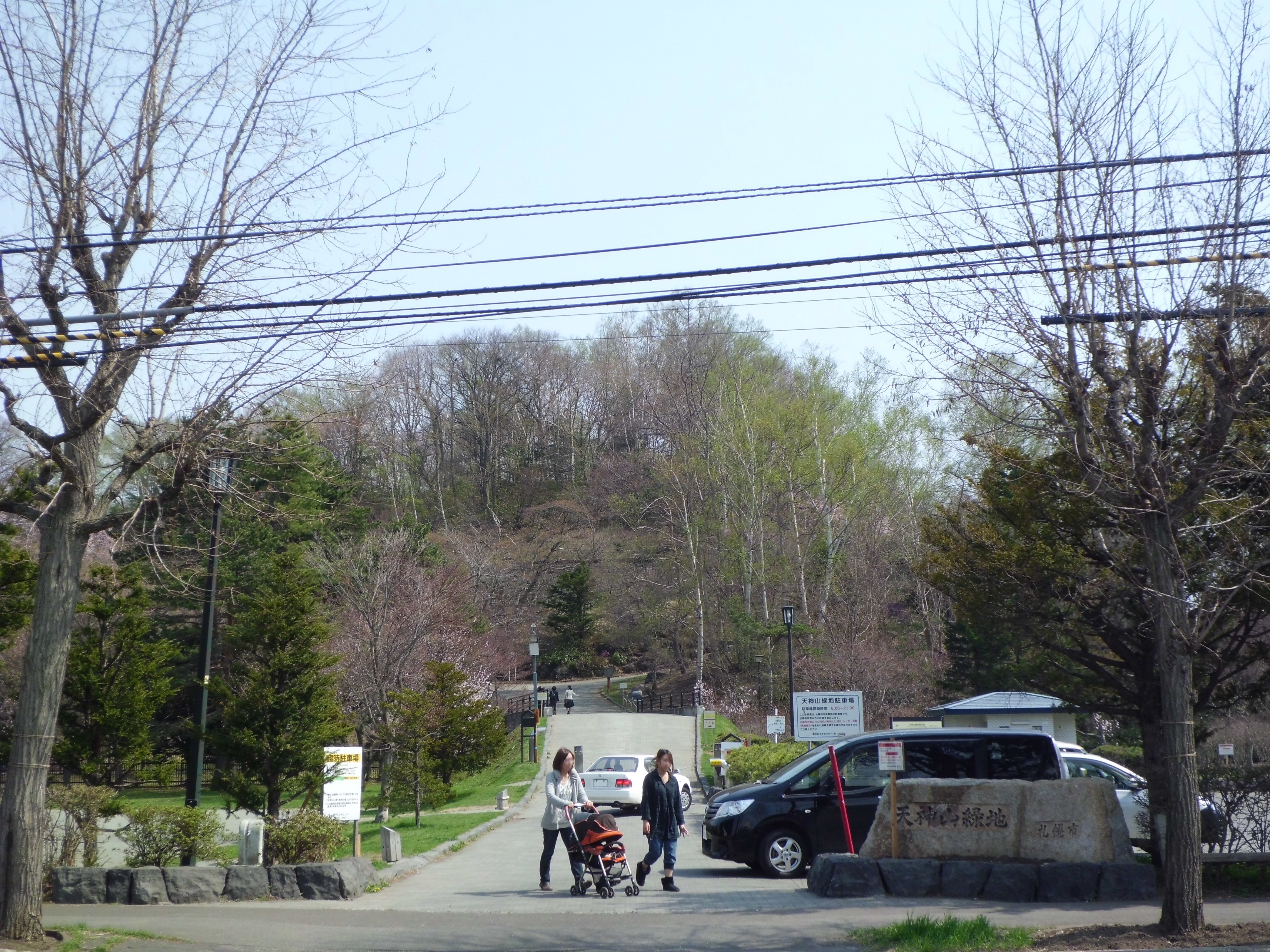 Tenjin-yama Park in Toyohira-ku, Sapporo